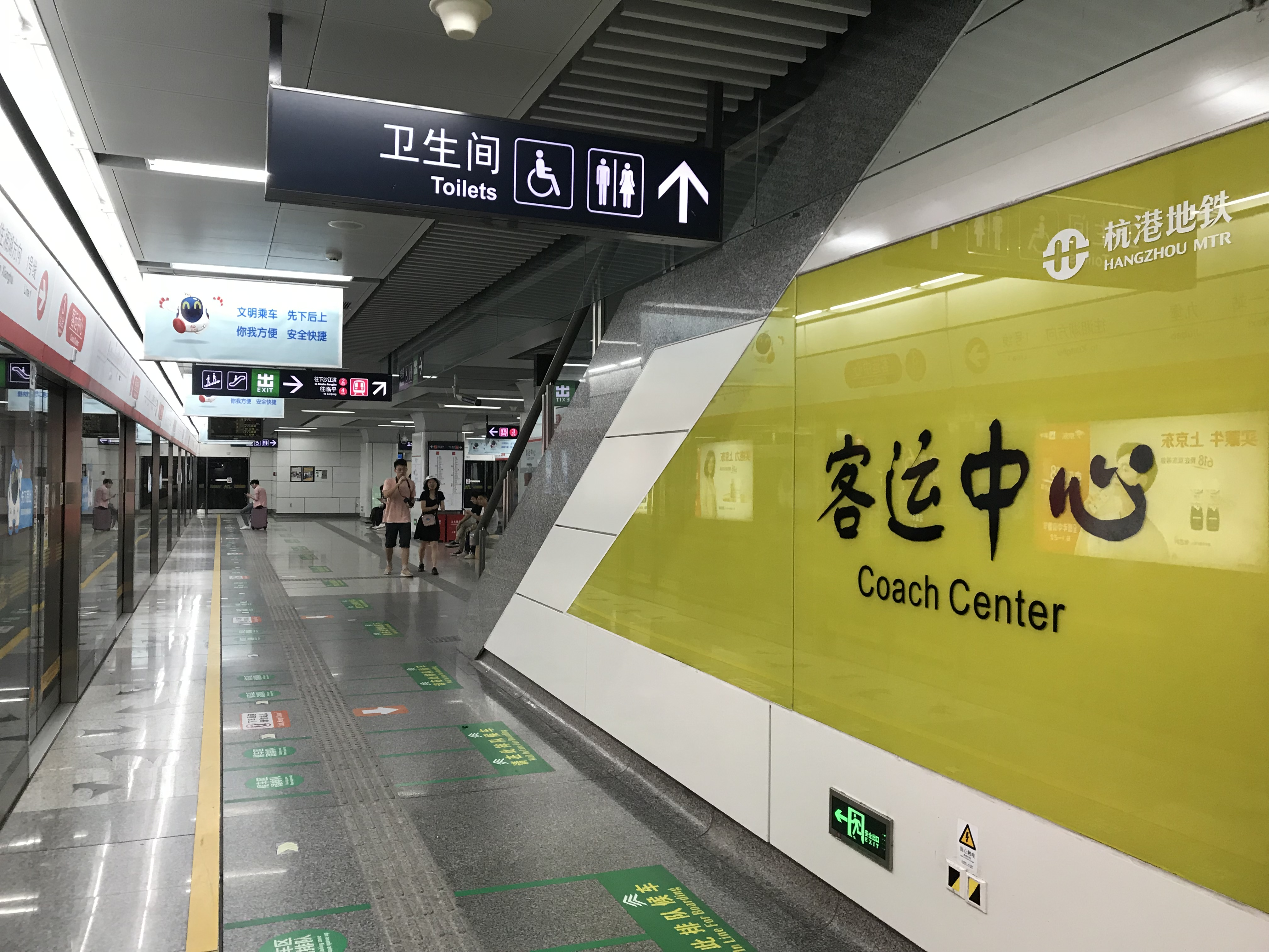 201806 Nameboard of Coach Center Station